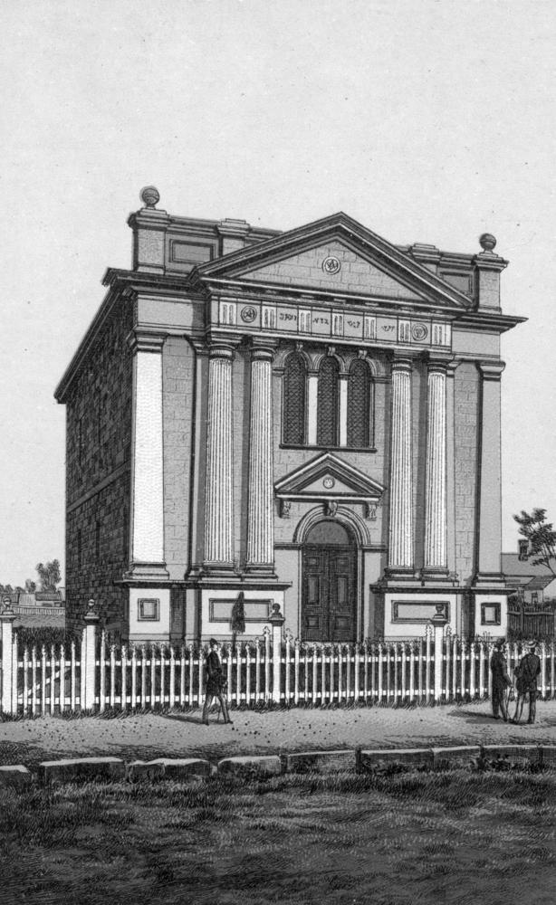 Masonic Hall, Warwick, ca. 1887. Caption under photograph reads: Masonic Hall.